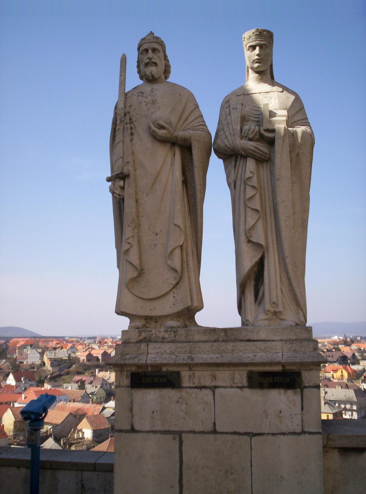 Description: Statue of King Stephen I. and Queen Gisela in Veszprém. Sculptor: József Ispánki (1938)